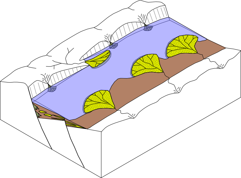 Schematic diagram of sedimentation in a lake-filled half-graben sub-basin based loosely on diagrams by Mike Leeder and Rob Gawthorpe [1] and on Lake Baikal